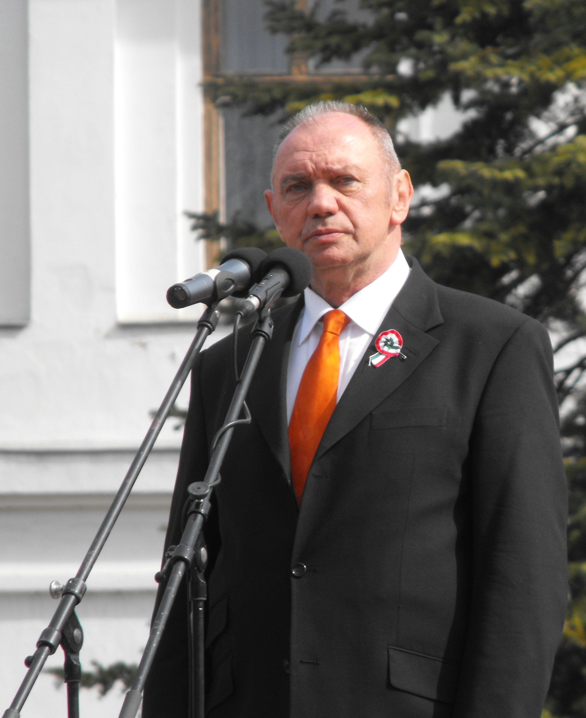 Gábor Koncz, Hungarian actor in Makó, participating in the national holiday of 15 March 2009.